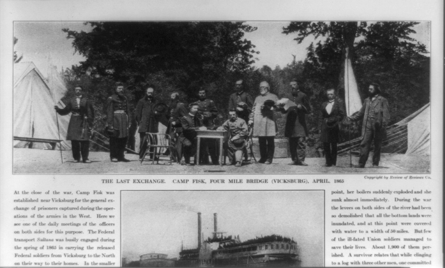 Title: The Last exchange. Camp Fisk, Four Mile Bridge (Vicksburg), April, 1865Abstract/medium: 1 photomechanical print : halftone.